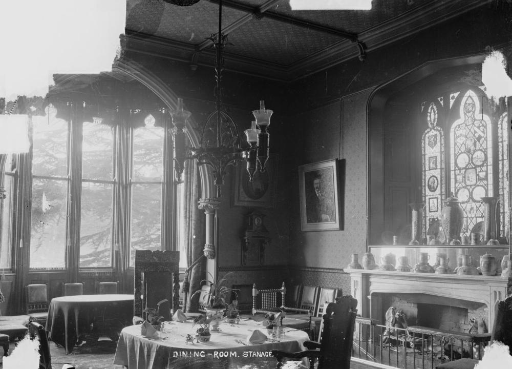 Abstract: Dining-room. Stanage